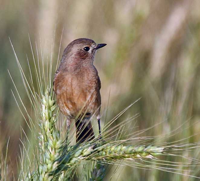 Pied Bushchat Saxicola caprata at/ near Hodal in Faridabad District of Haryana, India.